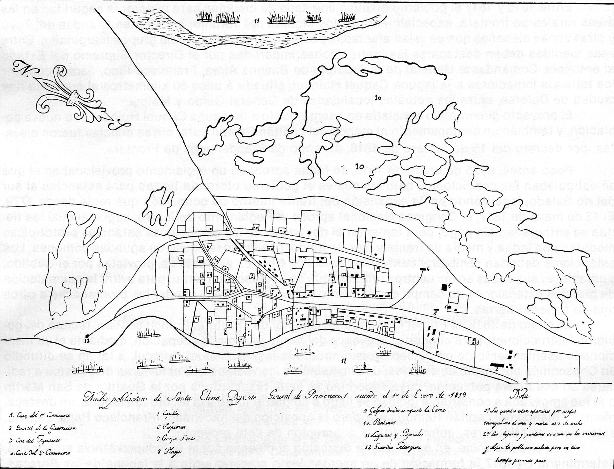 Map of the Las Bruscas prison camp, near Dolores, Argentina. Dated on January 1, 1819.